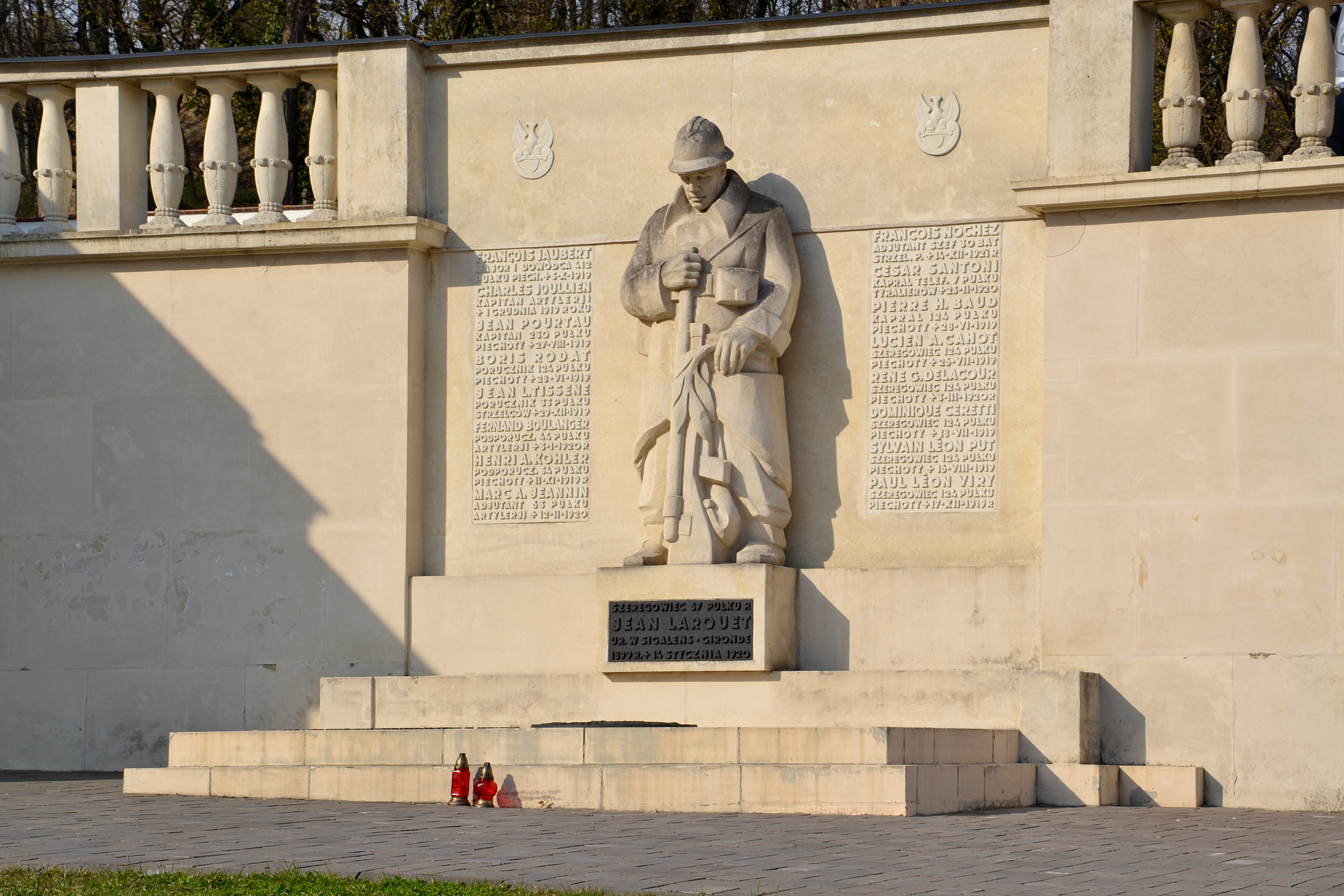 French Soldiers Monument and Catacombs at the Lwów Defenders Cemetery in Lviv, Ukraine